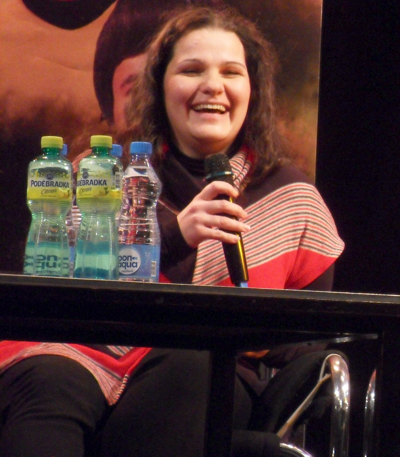 CzechTREK 2013, Kulturní centrum Novodvorská, Prague, Czech Republic Personality rights warningAlthough this work is freely licensed or in the public domain, the person(s) shown may have rights that legally restrict certain re-uses unless those depicted consent to such uses. In these cases, a model release or other evidence of consent could protect you from infringement claims.